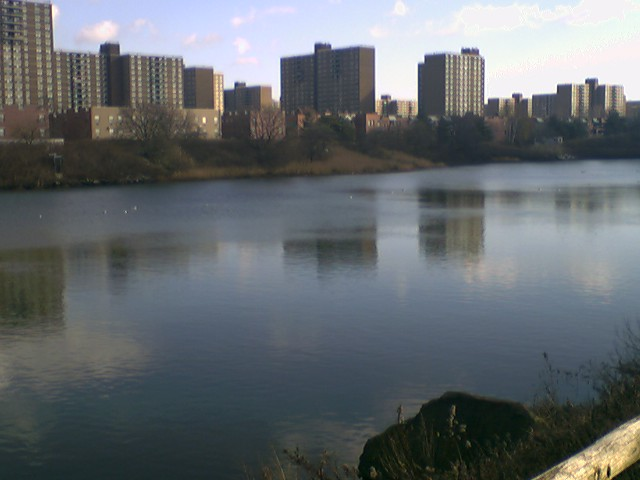 Another view of the tall buildings across Fresh Creek Basin.